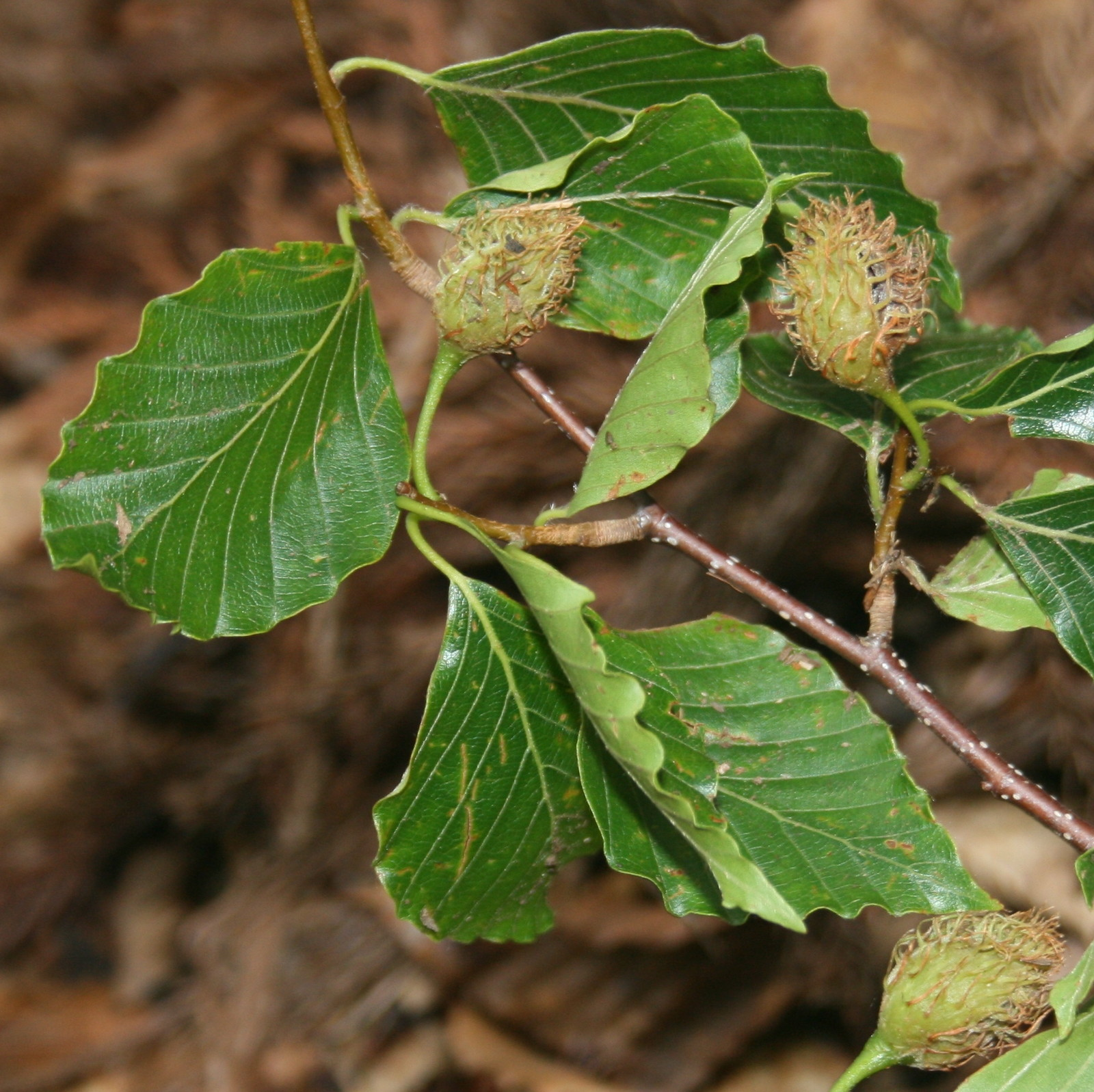 Fruits of Fagus crenata in Mount Ryozen, Shiga prepecture, Japan.